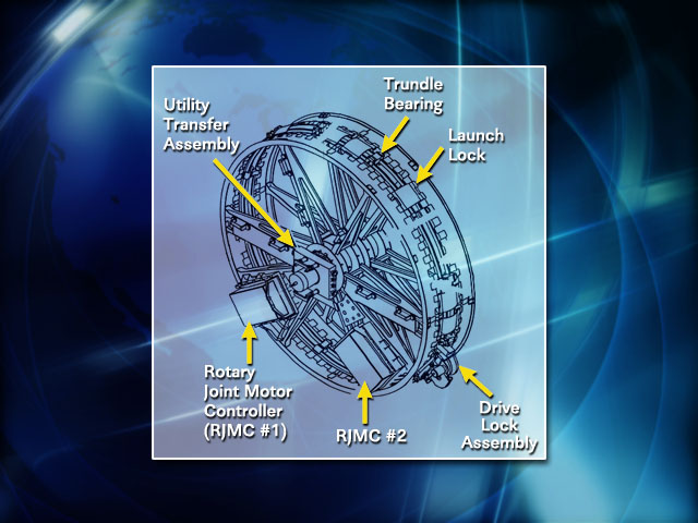 Diagram of Solar Array Rotary Joint of the International Space Station